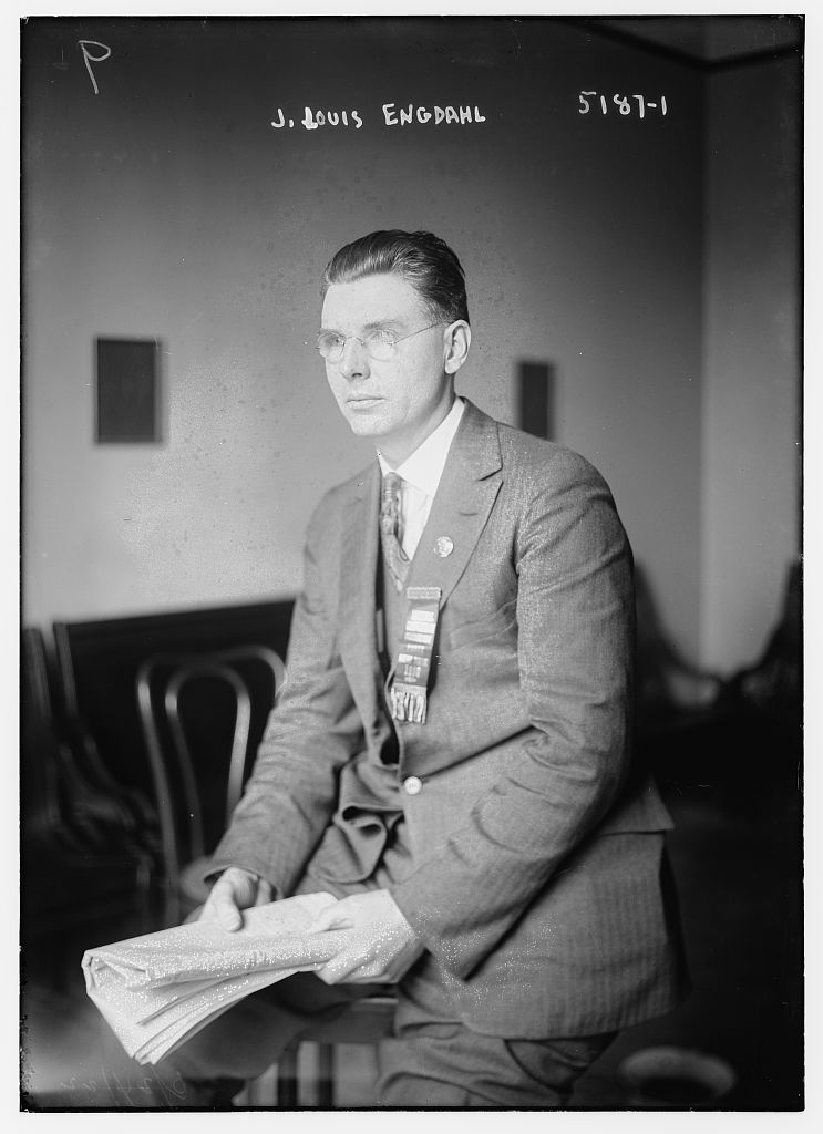 John Louis Engdahl in 1920